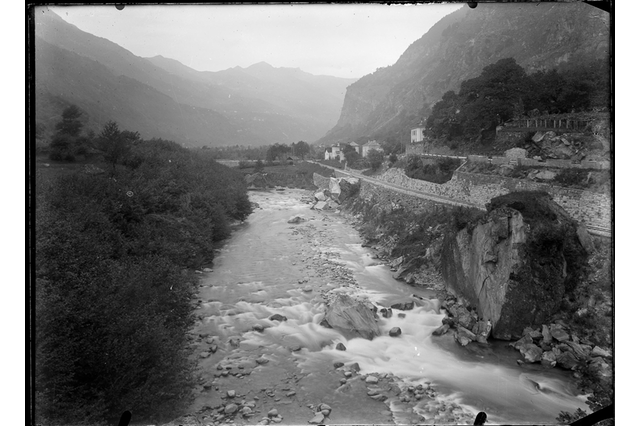 Biasca-Acquarossa railway around 1911 by Ferdinando Gianella